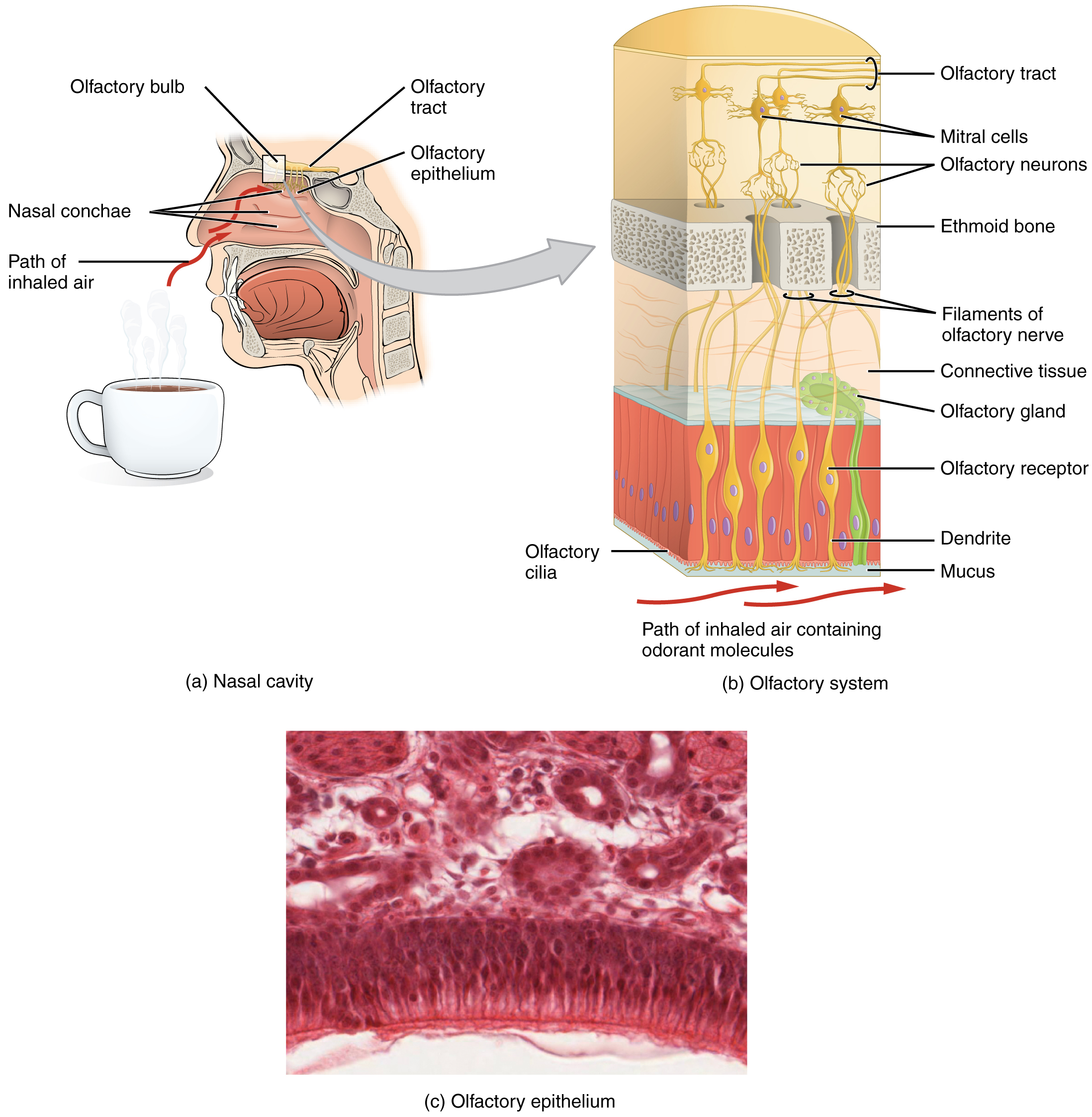 Version 8.25 from the Textbook OpenStax Anatomy and Physiology Published May 18, 2016